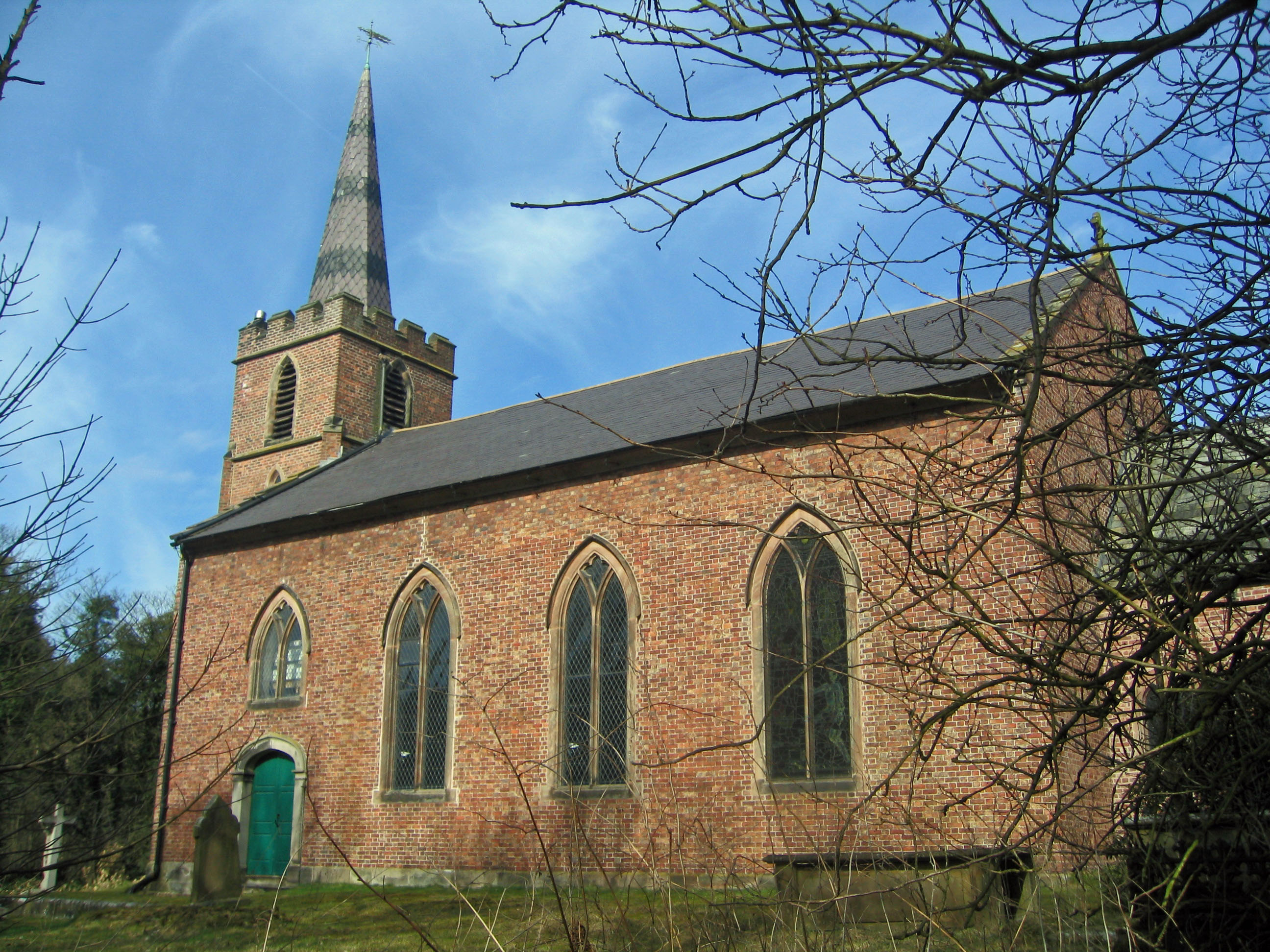 Photograph of St John's Church, Chelford, Cheshire, England, from the south